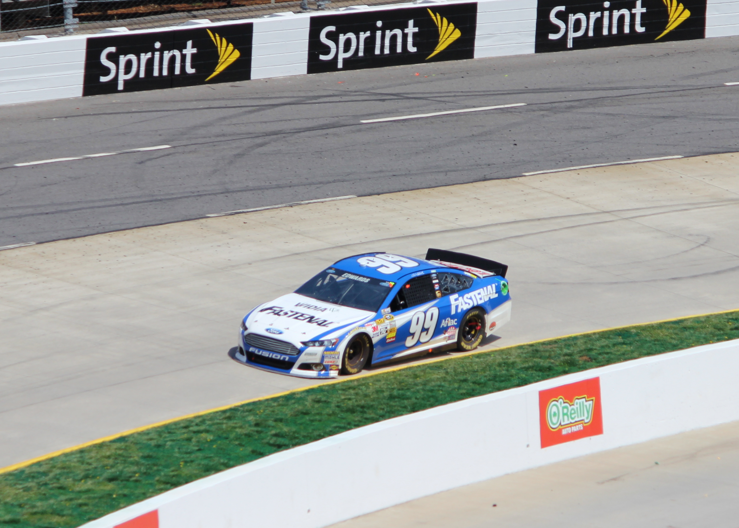 Carl Edwards races during the 2013 STP Gas Booster 500.